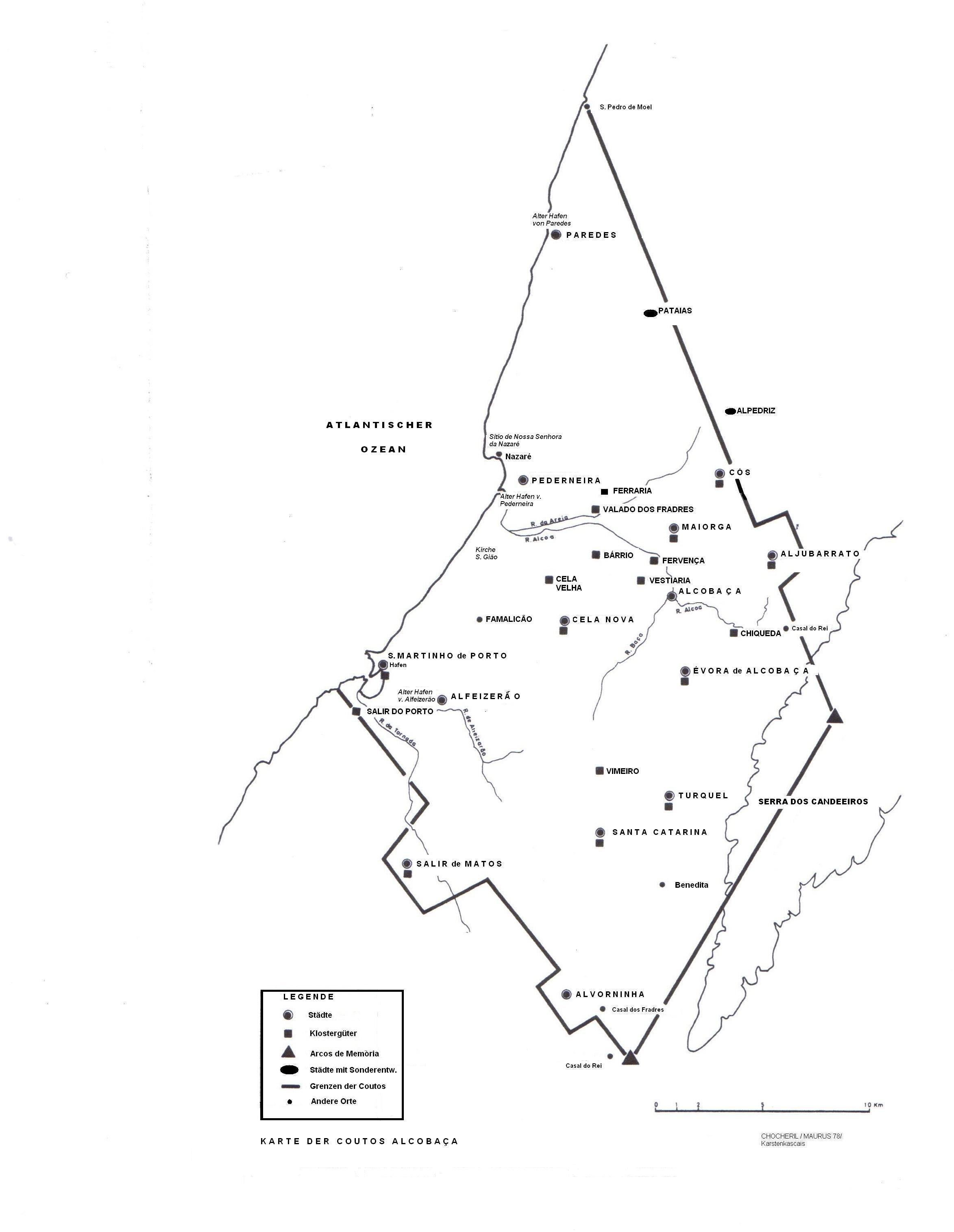 Alcobaça, Portugal, Mosteiro do Alcobaça, Abbey, plan of the Coutos of Alcobaça, County of the Abbey of Alcobaça, plan new cerated by Karstenkascais, on the base of Dom Maur Chocheril, Alcobaça, Abadia Cisterciense de Portugal, 1989, Impresa Nacional-Casa da Moeda, Dep.Legal 30258/89; Template:In SVG konvertieren